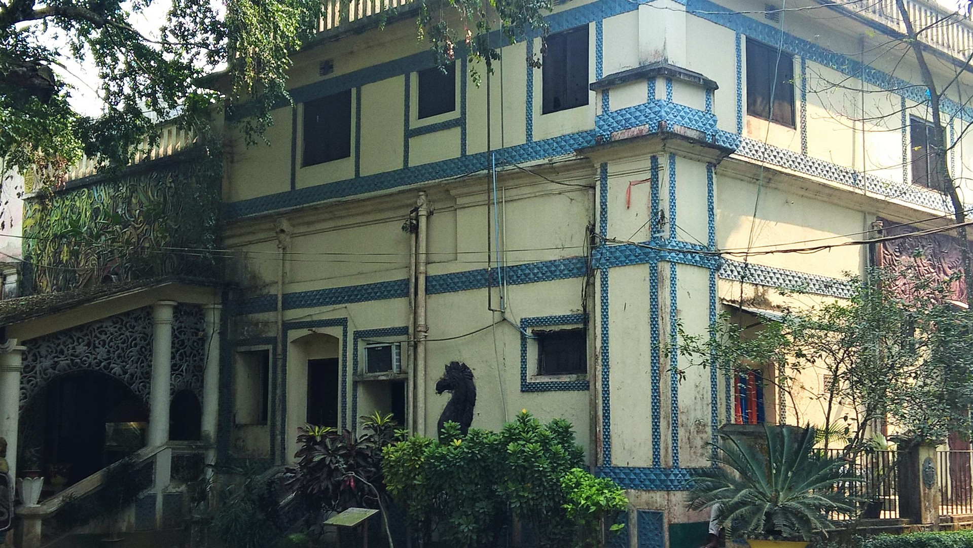 Mohammed Ali Palace Museum & Park also known as Palace Museum in Bogra is the eminent archaeological sight located in Bogra.